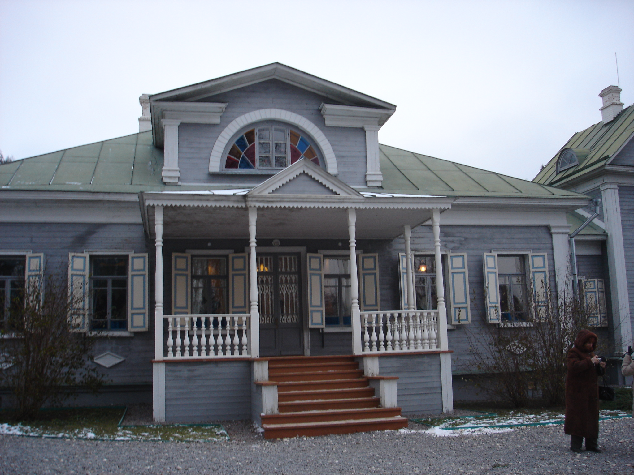 A house of a prominent russian poet Alexander Blok in Shakhmatovo, Moscow area